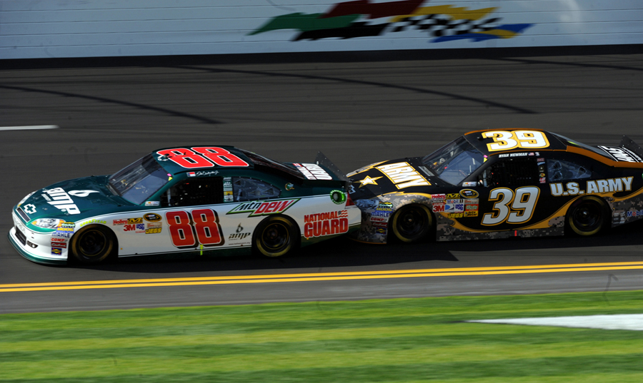 Ryan Newman, driving the No. 39 U.S. Army Chevrolet, pushes the No. 88 AMP Energy/National Guard Chevy driven by Dale Earnhardt Jr. during the first Gatorade Duel 150-mile qualifying race for the Daytona 500 on Thursday at Daytona International Speedway. Newman finished 10th and Earnhardt 13th in the race won by Kurt Busch. U.S. Army photo by Tim Hipps, FMWRC Public Affairs